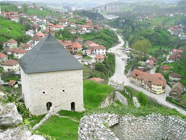 The town of Tešanj seen from a castle hill, BiH